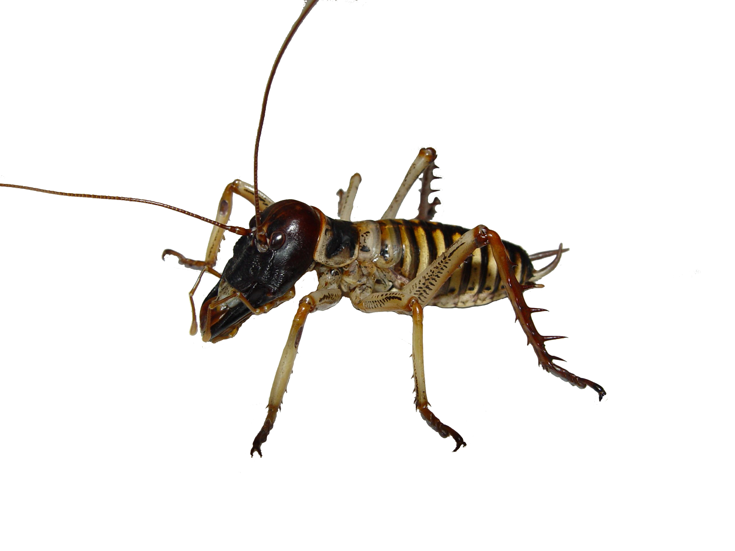 Adult male tree wētā have larger heads than females.